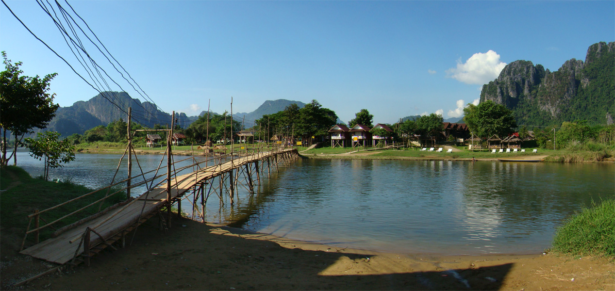 Nam Song river and karst mountains in Vang Vieng, Vientiane Province, Laos.